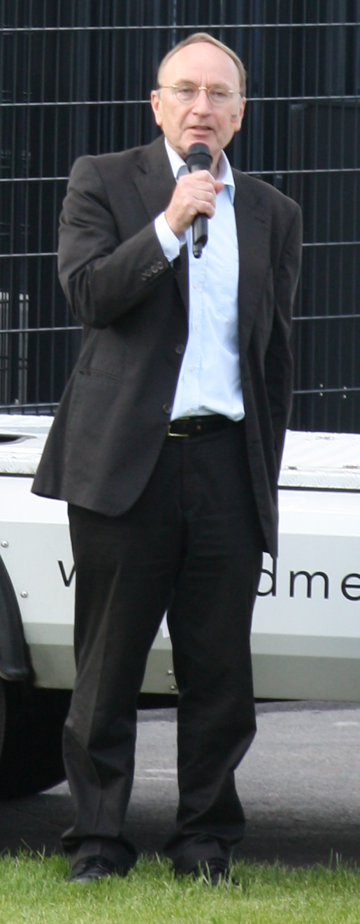 Joachim Rücker, German Ambassador to Sweden at a public viewing event at the German Embassy Stockholm on the occasion of the opening match of the FIFA Women's World Cup 2011